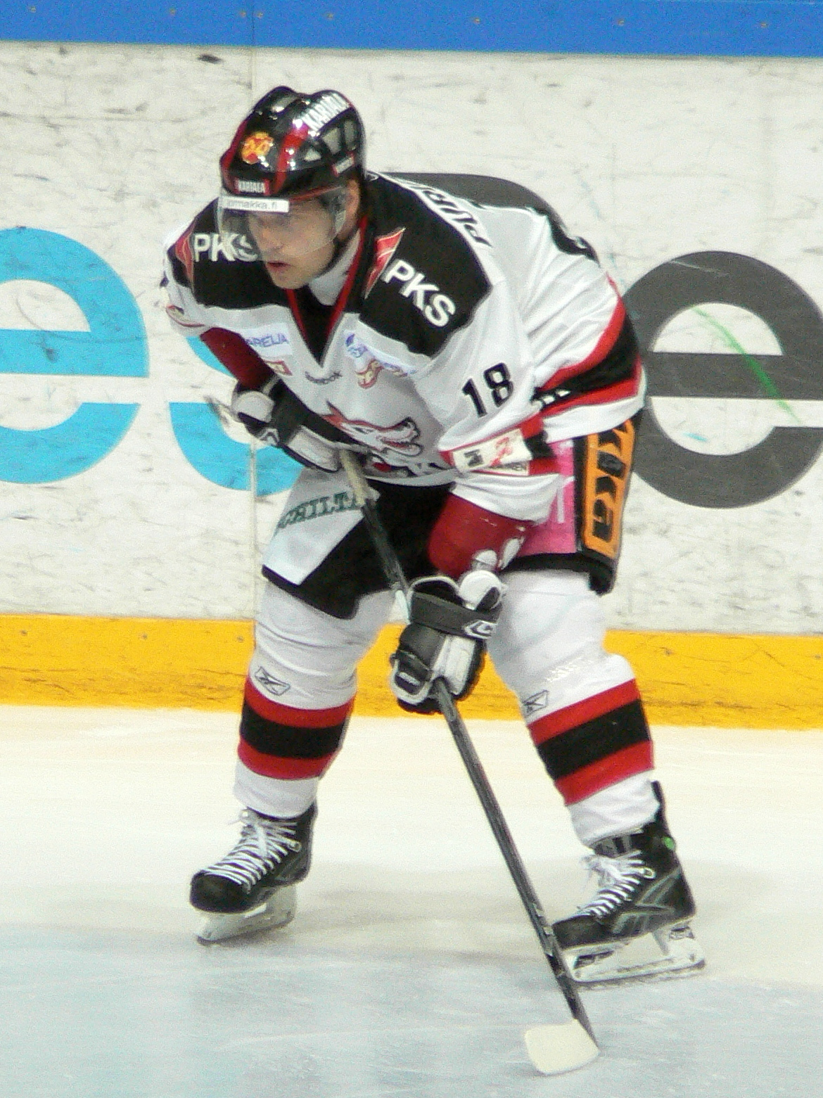 Finnish ice hockey winger Sami Puruskainen playing for Joensuu Jokipojat in April, 2010.